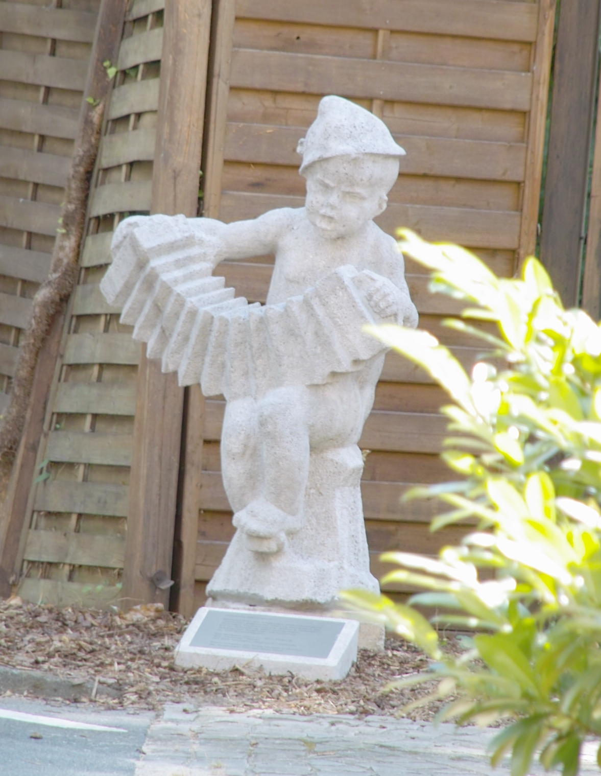 Statue of an accordionist, mascot of former accordeon producing company Cantulia in Siegburg, North Rhine-Westphalia, Germany